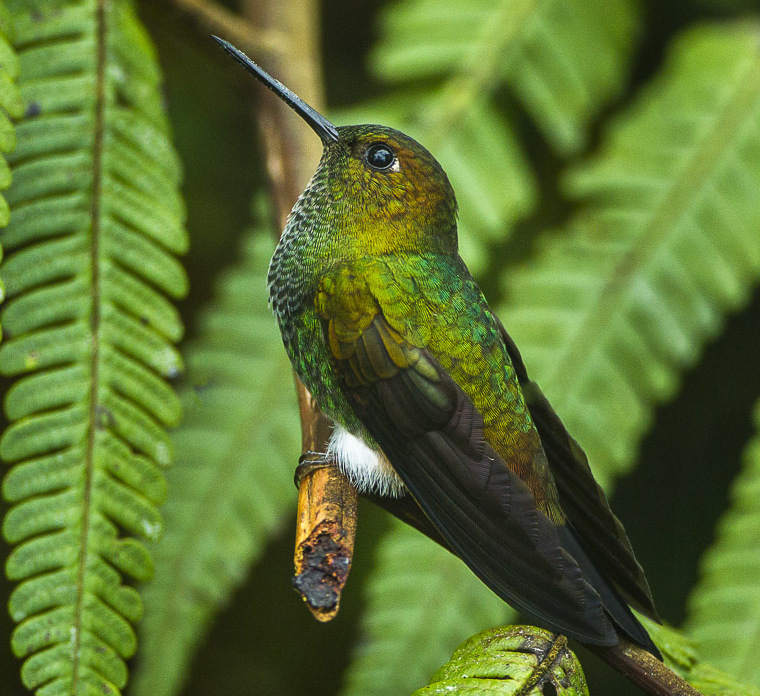 Greenish Puffleg - Colombia_S4E3301